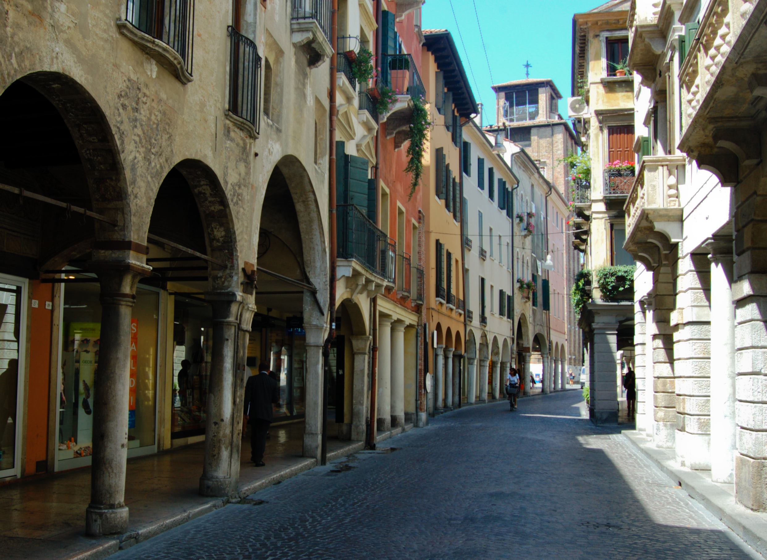 A street in Treviso, Italy.